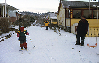 Skiers in allotment garden, Solvang, Norway.